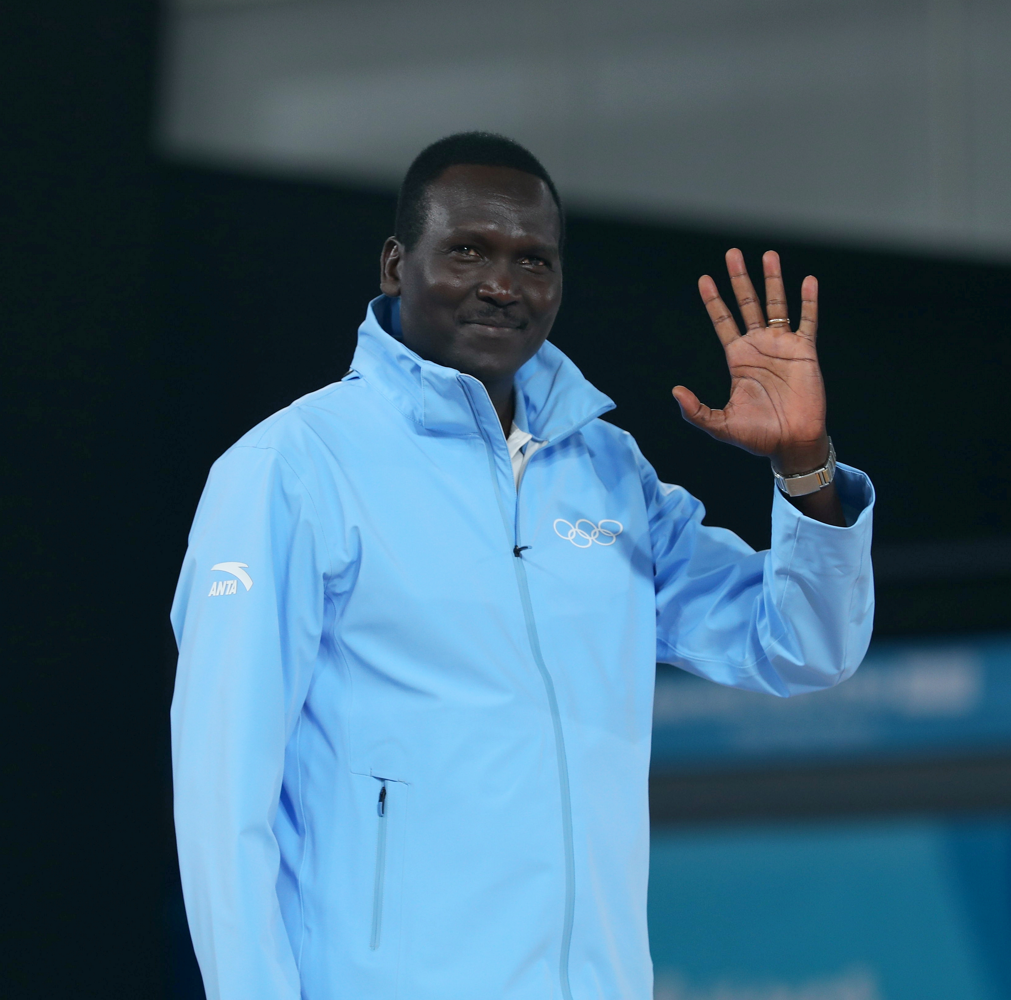 Victory ceremony of the rhythmic gymnastics at the 2018 Summer Youth Olympics in Buenos Aires on 16 October 2018.